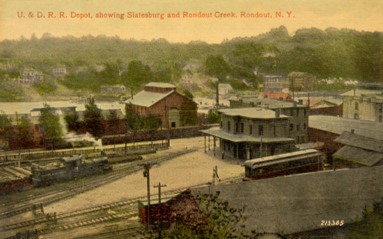 Ulster and Delaware Railroad depot in Rondout, New York (now part of Kingston.)